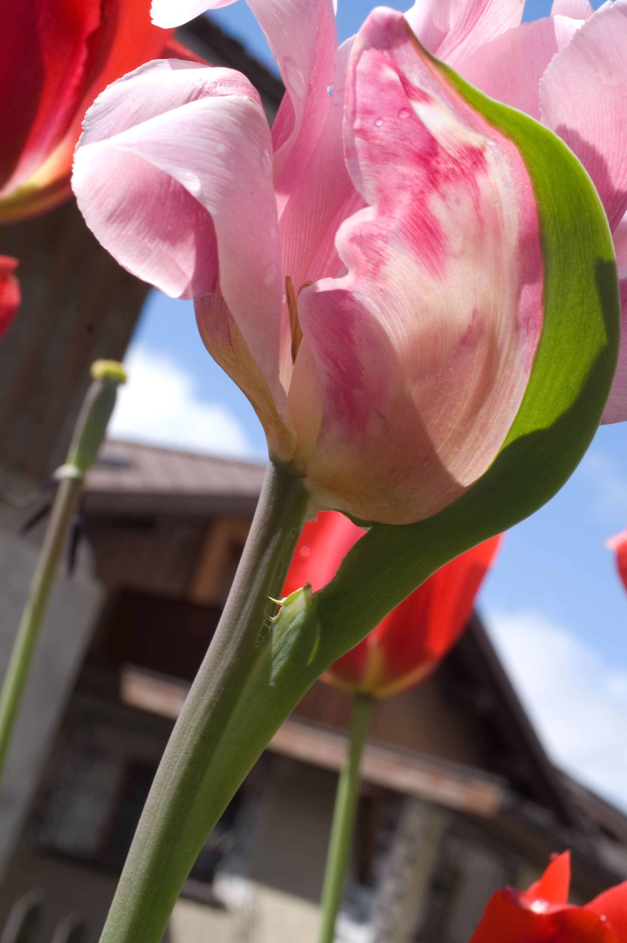 Tulip metamorphosis connation leaf petal